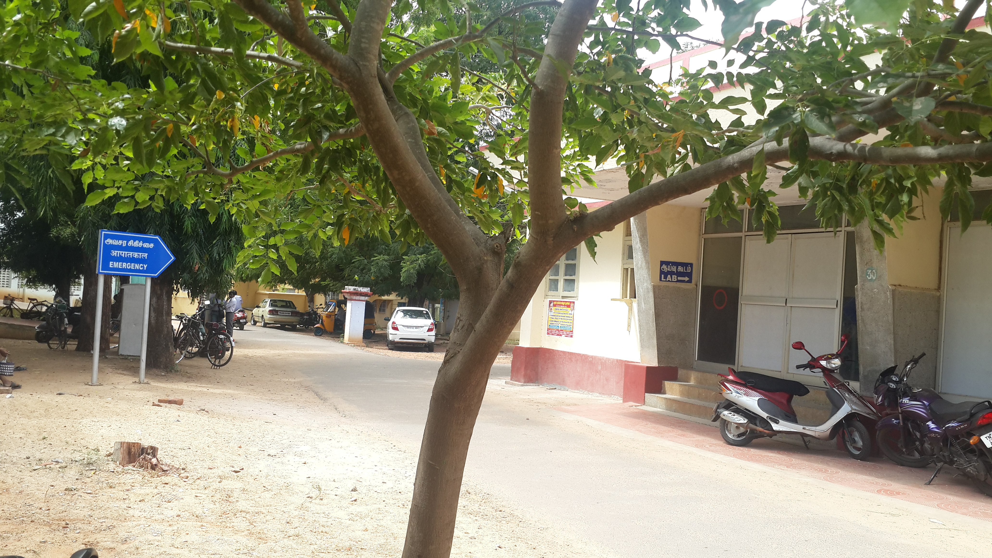 Emergency ward building at Divisional Railway Hospital, Golden Rock.